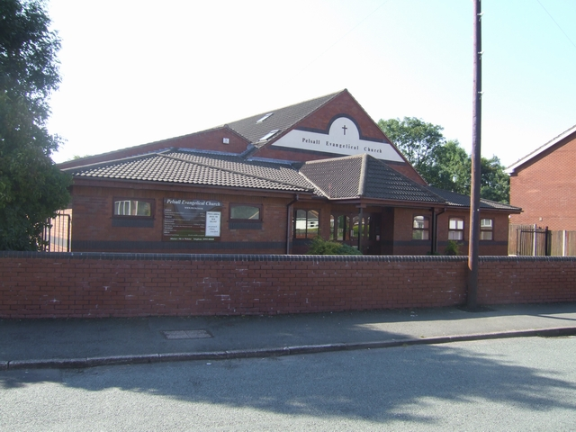 Pelsall Evangelical Church, Pelsall